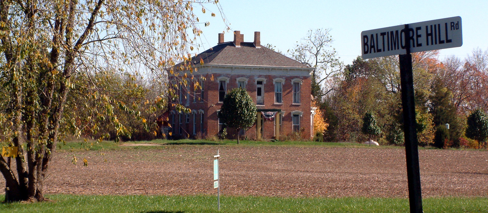 The one remaining house in the extinct town of Baltimore, Indiana. Photo looks east from the intersection of Baltimore Hill Road and Indiana State Road 263.